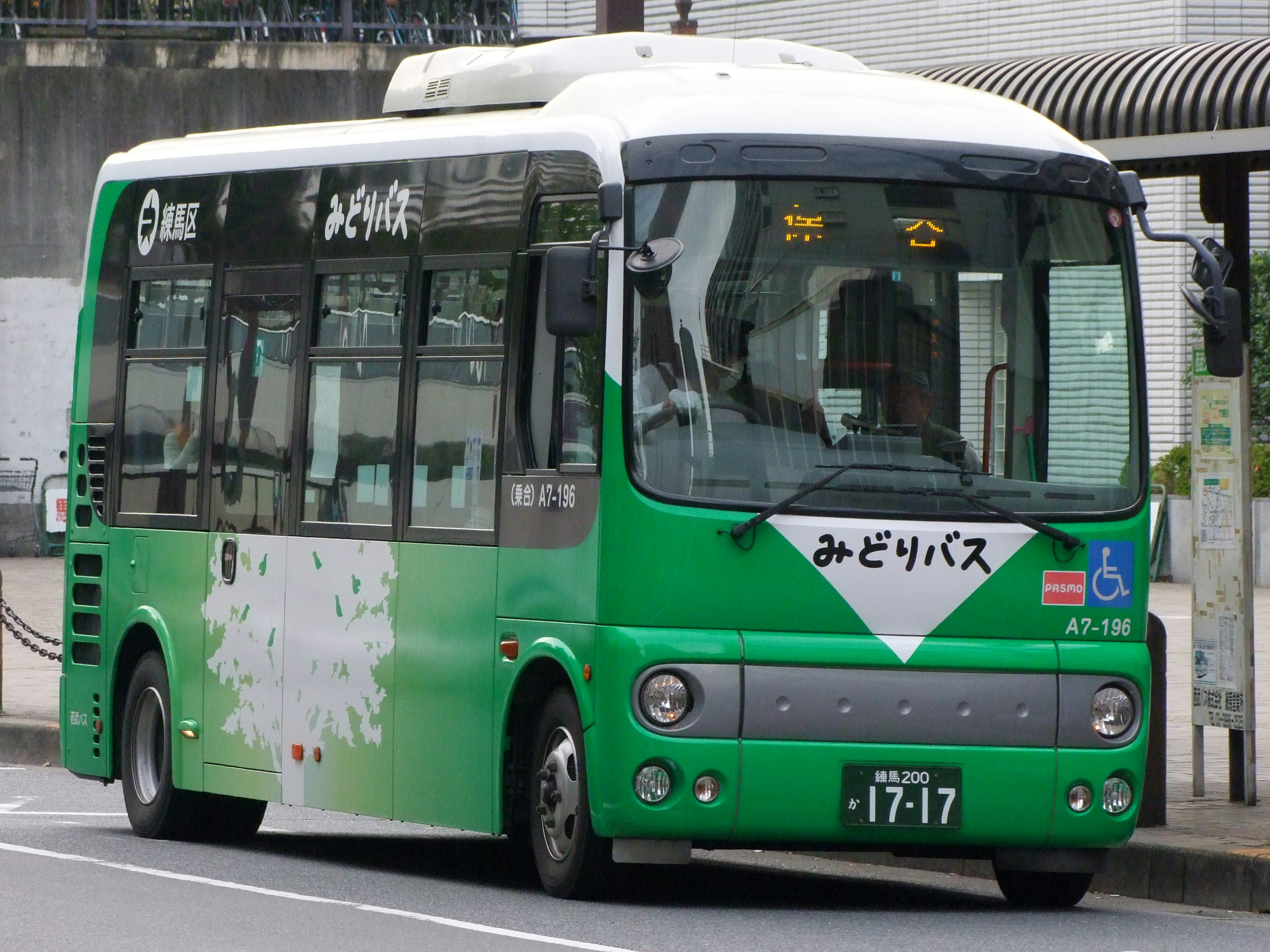 Seibu Bus Car#A7-196.(Hino Poncho.Use for Nerima ward community bus "Midori-bus")Date:22-Oct-2009Place:Hikarigaoka Station